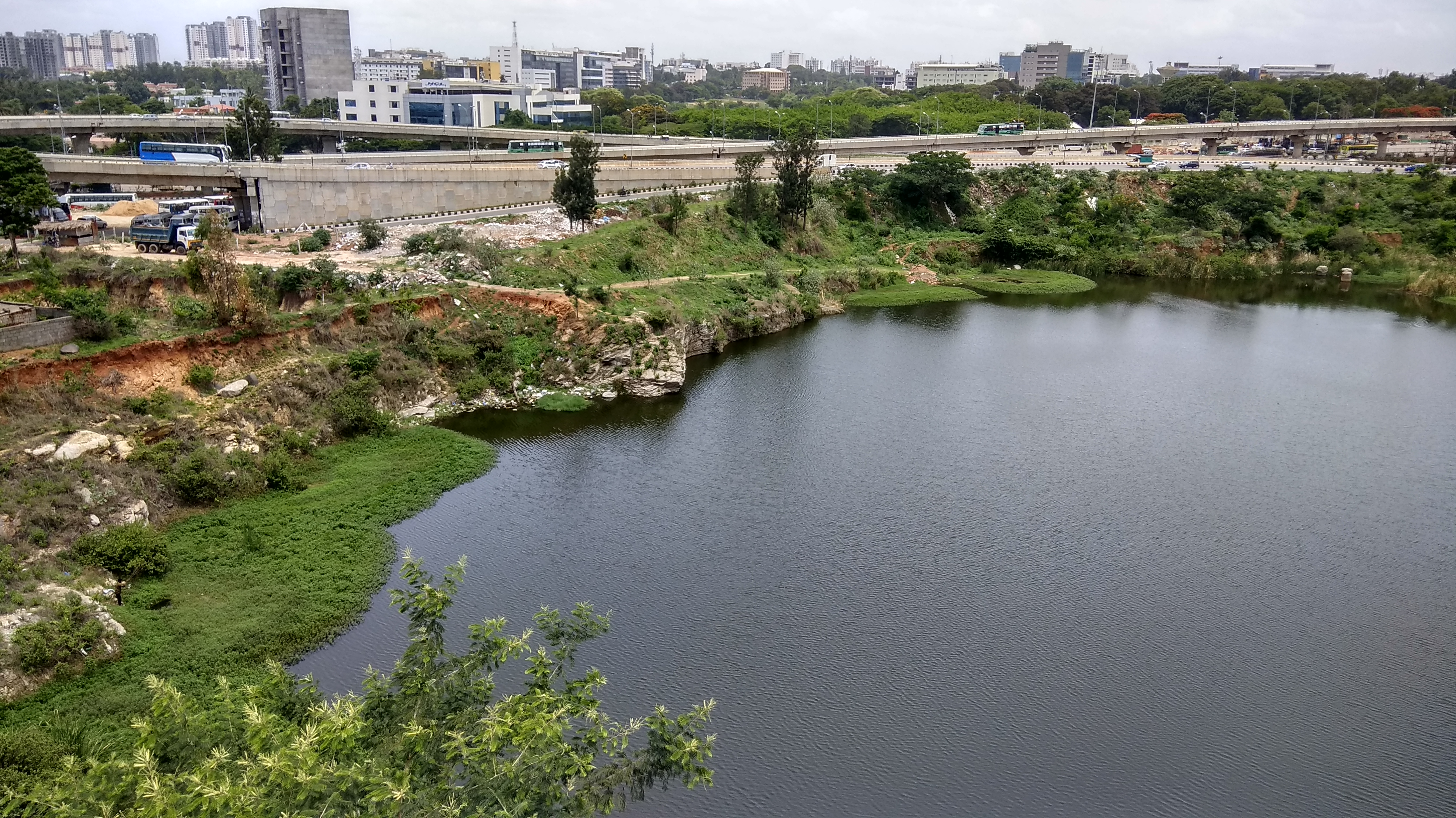 lake view from company